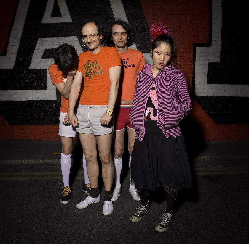 Agaskodo Teliverek Photoshoot, april 2008